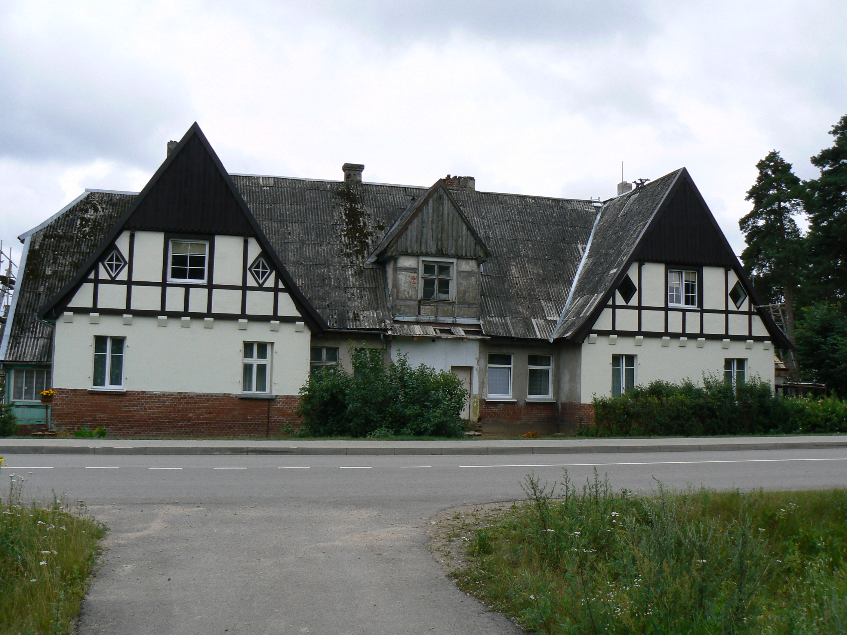 Pėžaičiai in Klaipėda districtLietuvių: Namas PėžaičiuoseŽemaitėška: Piežātē (liet. Pėžaičiai, vuok. - Pöszeiten) - gīvenvėitė Klaipiedas rajuonė